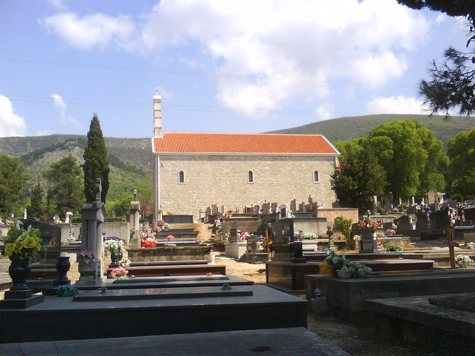 Roman catholic church of St. Stephen in Sovići